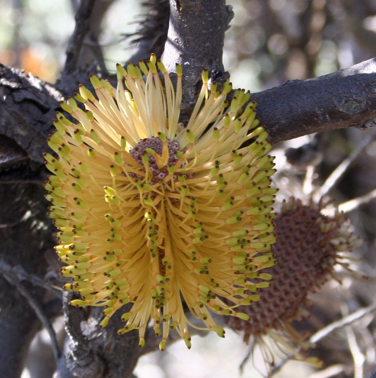 Banksia candolleana, blacktips to inflorescence north of Badgingarra April 2006 Photo Cas Liber